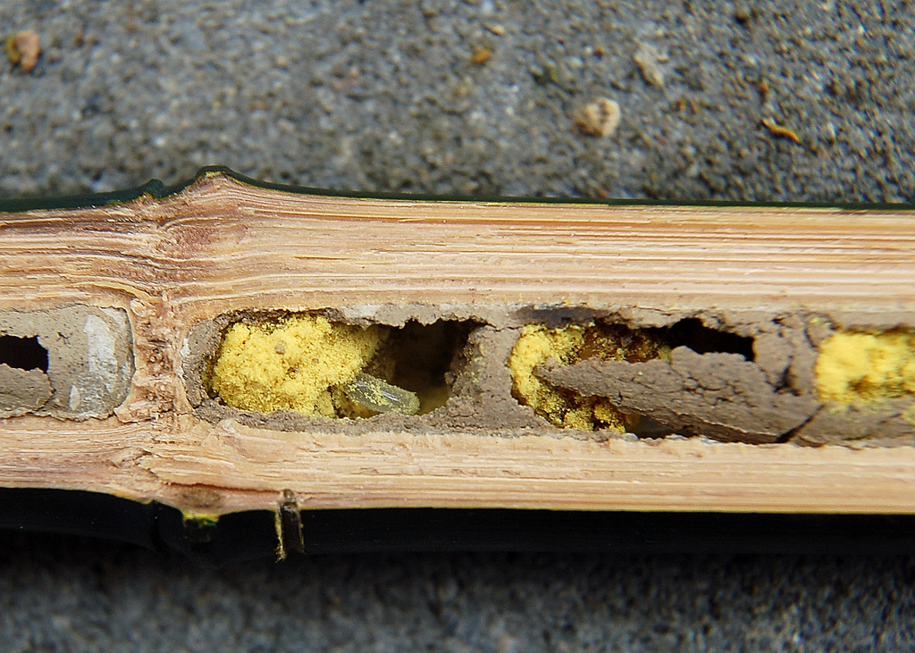 Opened nest of a red mason bee (Osmia rufa)